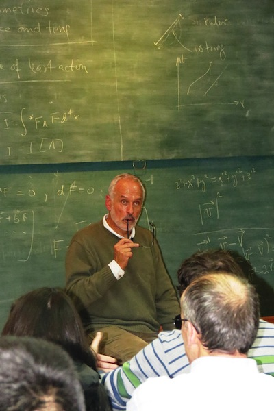 Claudio Bunster